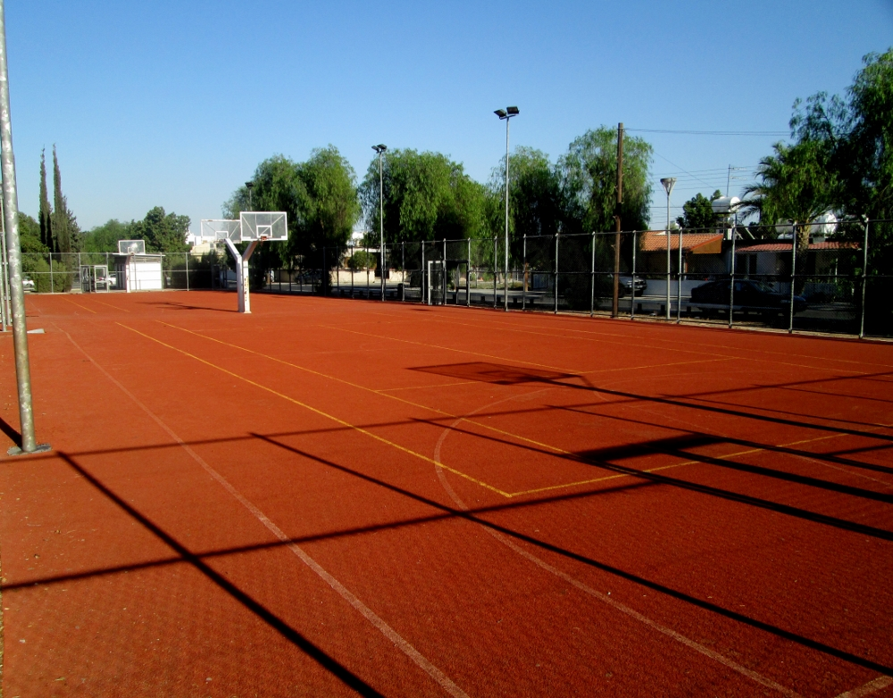 Kaimakli area train station public park basketball court Nicosia Cyprus